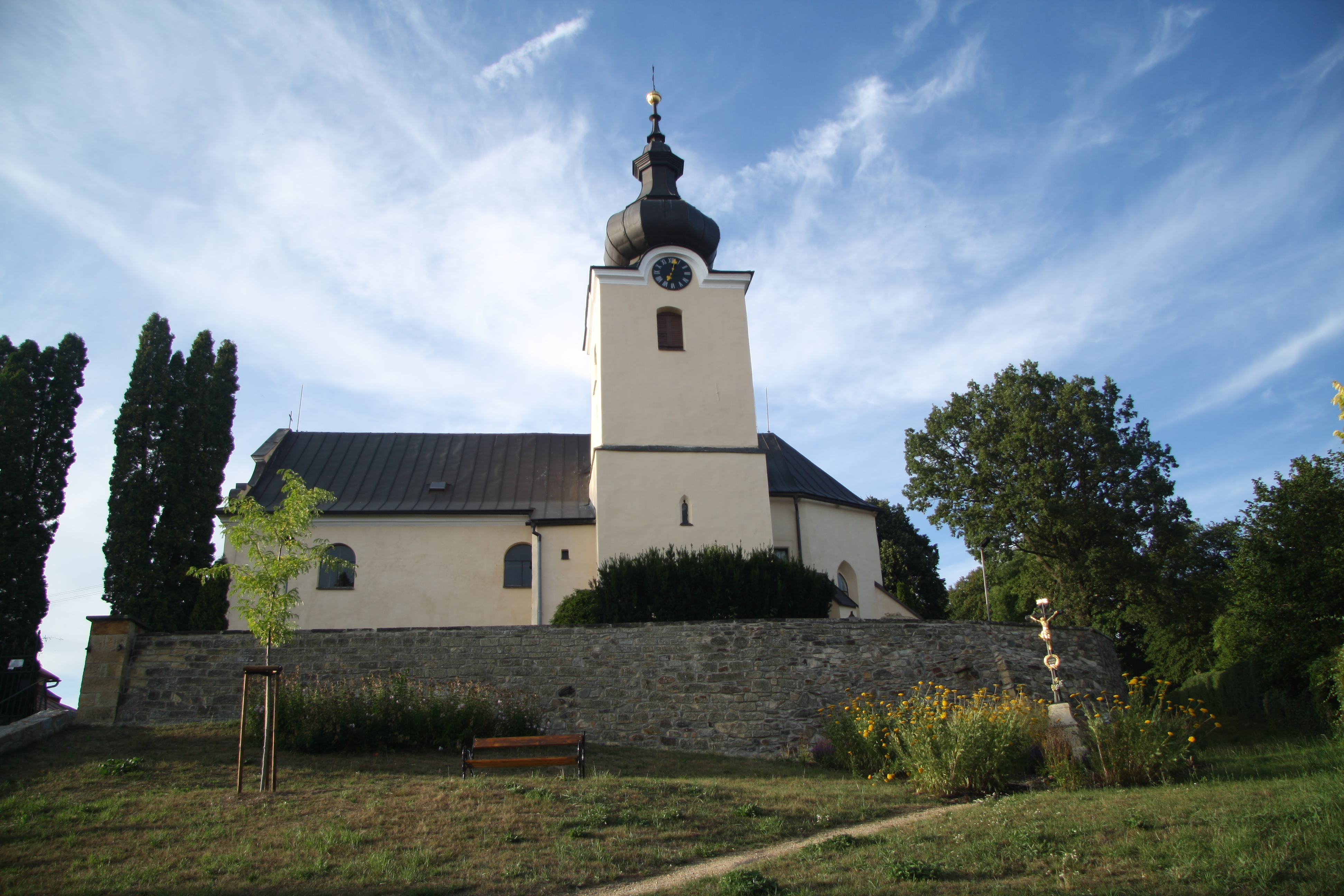 Church of Saint Nicholas in Krucemburk, Havlíčkův Brod District.